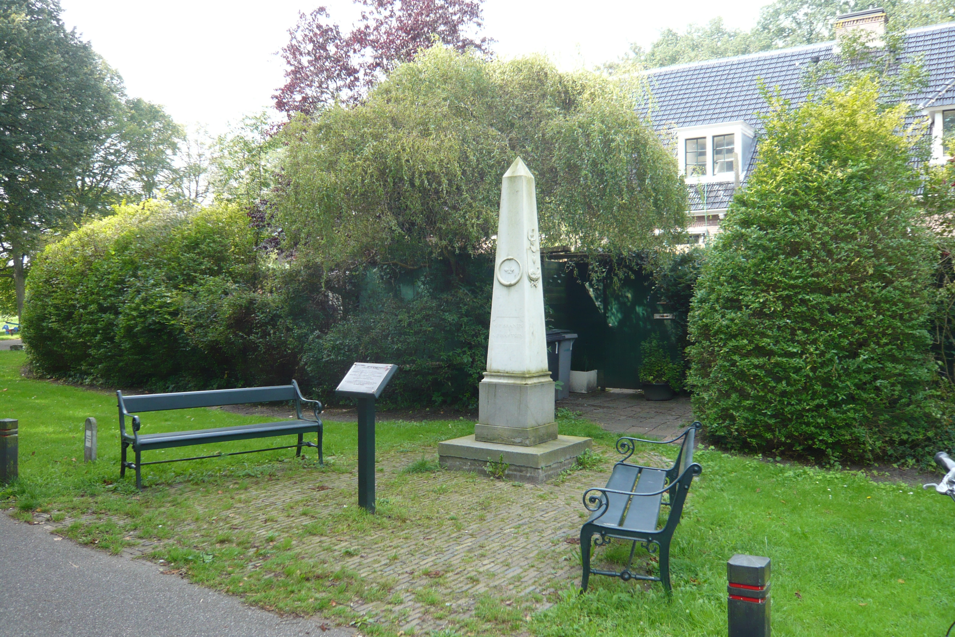 Memorial erected September 23rd, 1994 to commemorate the newly built houses built on the other side of the street (not shown) to supplement the houses at the Hofje van Verschuer Brants, Bennebroek, the Netherlands